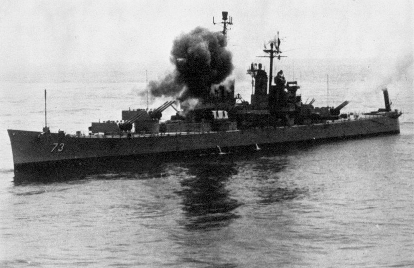 The U.S. Navy heavy cruiser USS Saint Paul (CA-73) shelling targets in Vietnam, in 1969.